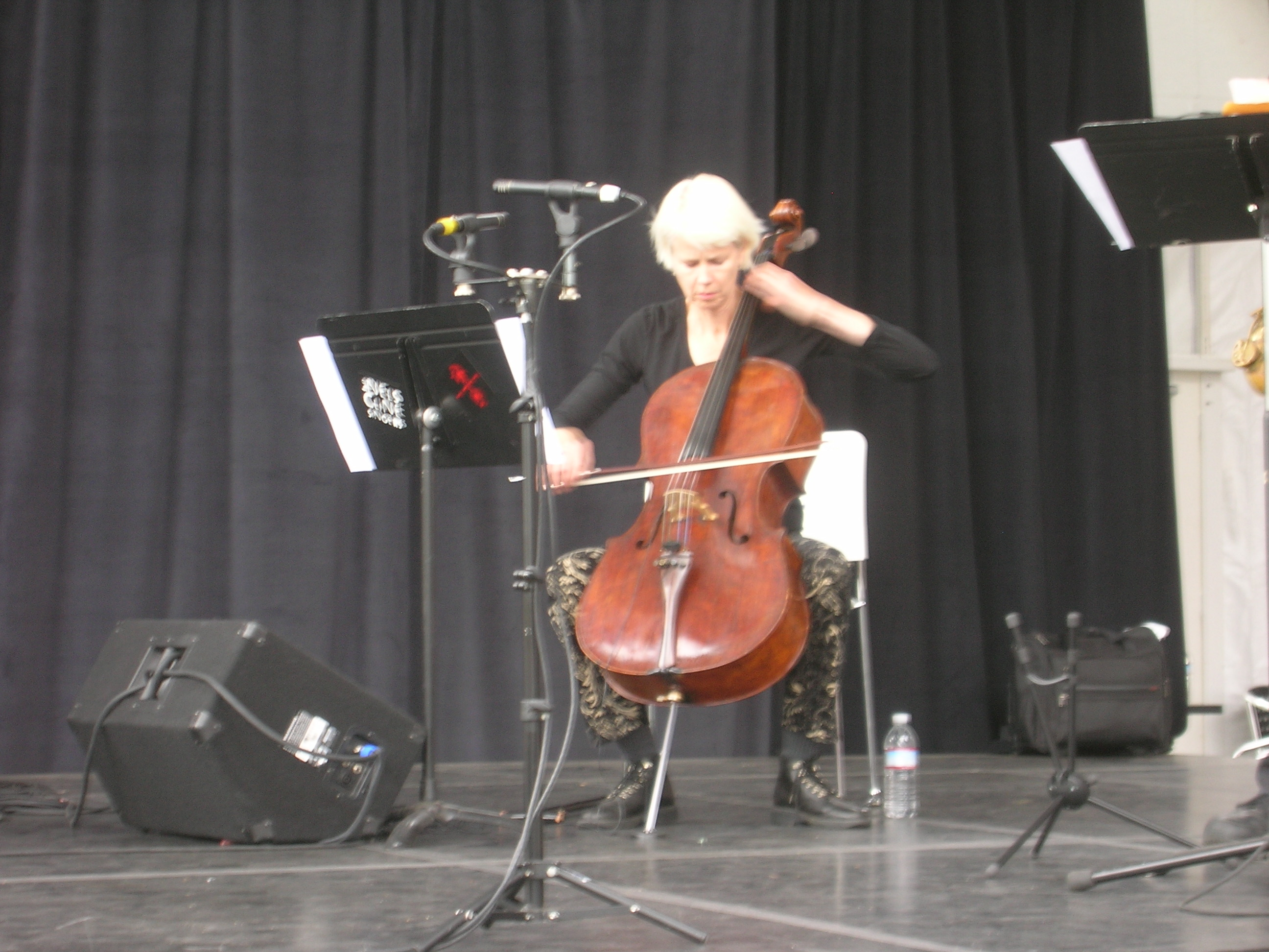 Joan Jeanrenaud, with Kihnoua 10/26/2008, at the De Young Museum, San Francisco